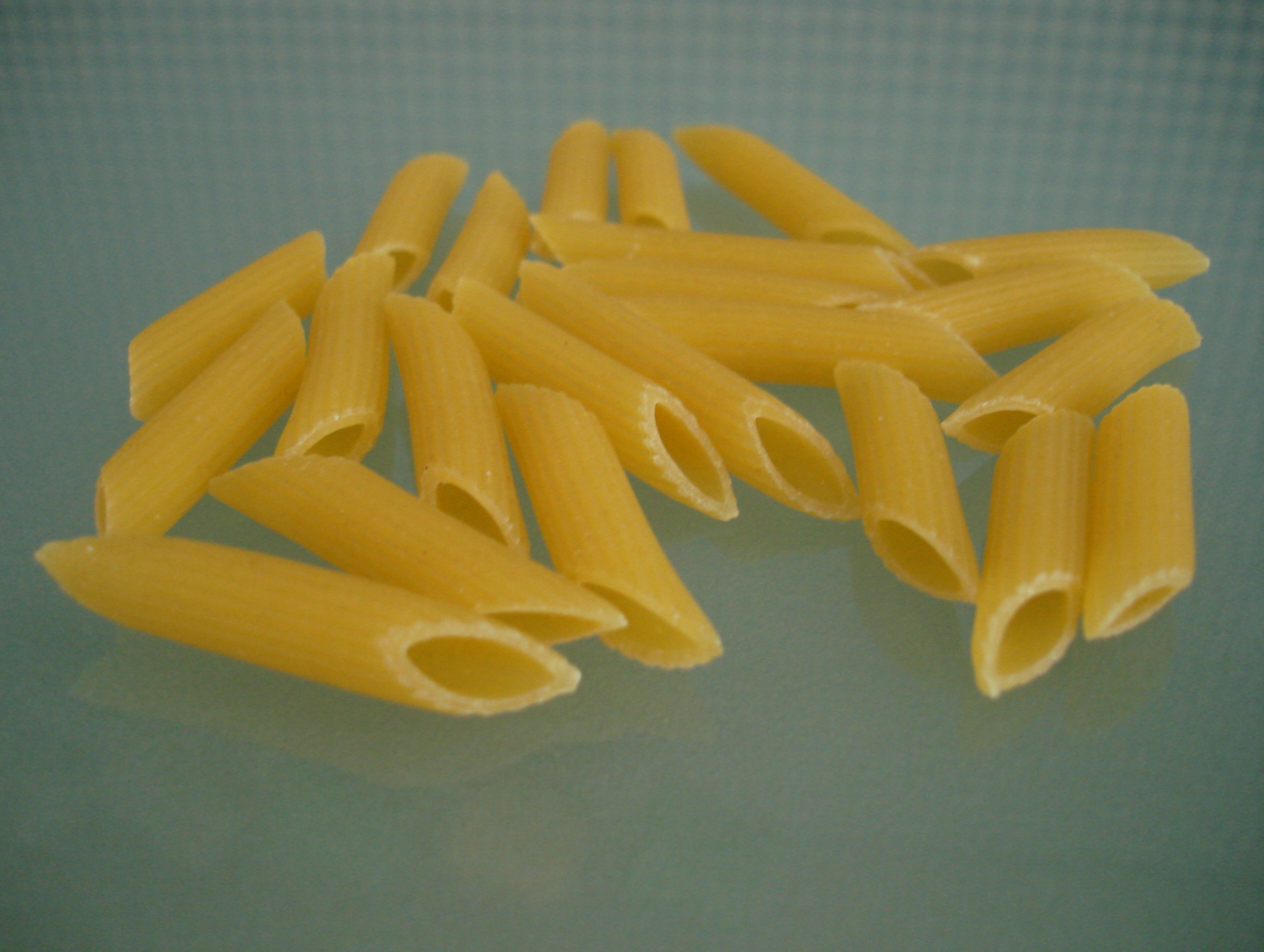 Penne rigate, uncooked